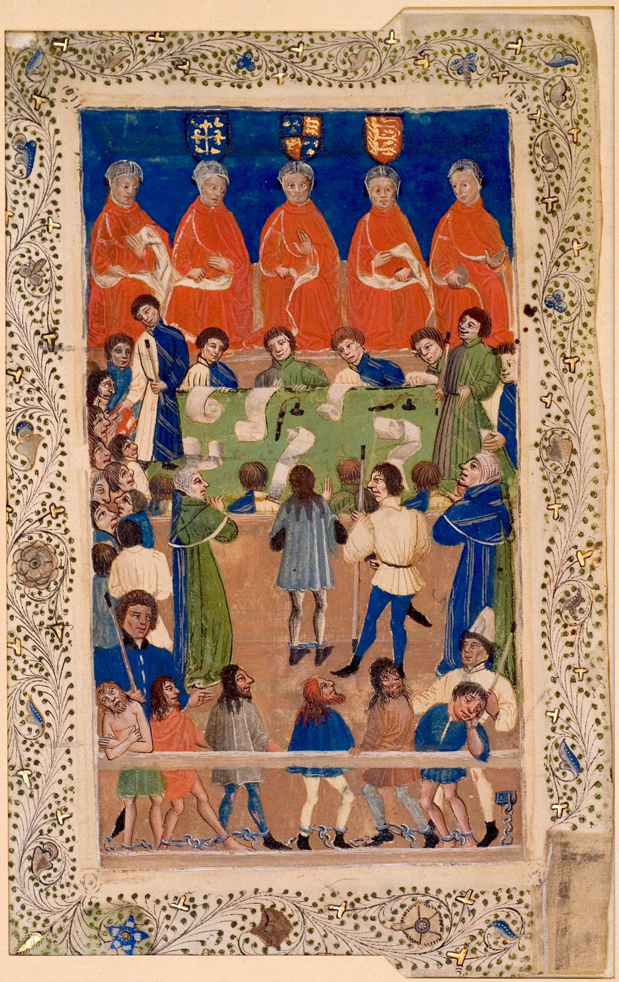 An illuminated manuscript of the Court of King's Bench in session. The accused are standing at the "bar" of the court, with legs in chains. Five court officials are identifiable by the staffs of office they hold. In the centre an accused pleads his case with feet chained together.